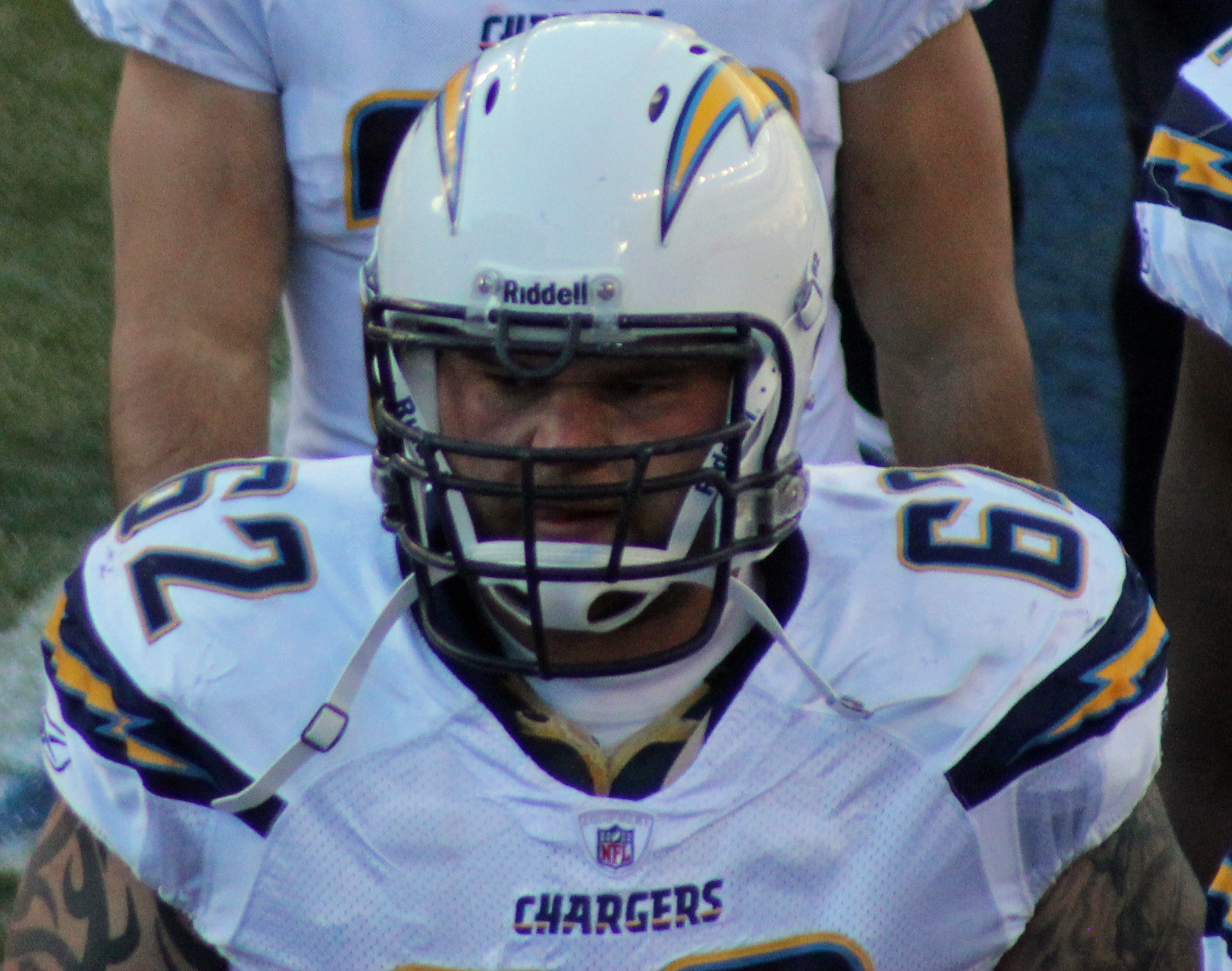 Brandyn Dombrowski, a player on the San Diego Chargers American football team.